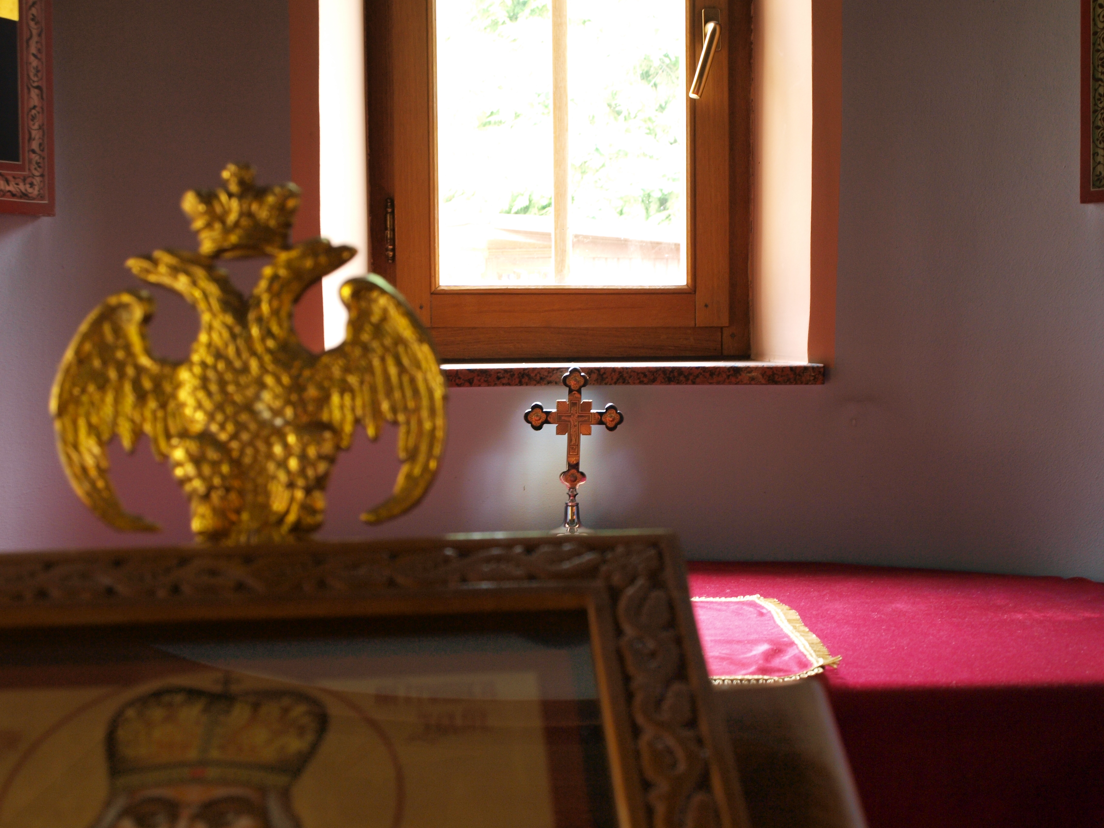 Details from chappel in Serbian Orthodox monastery of Moštanica, Republika Srpska, Bosnia.